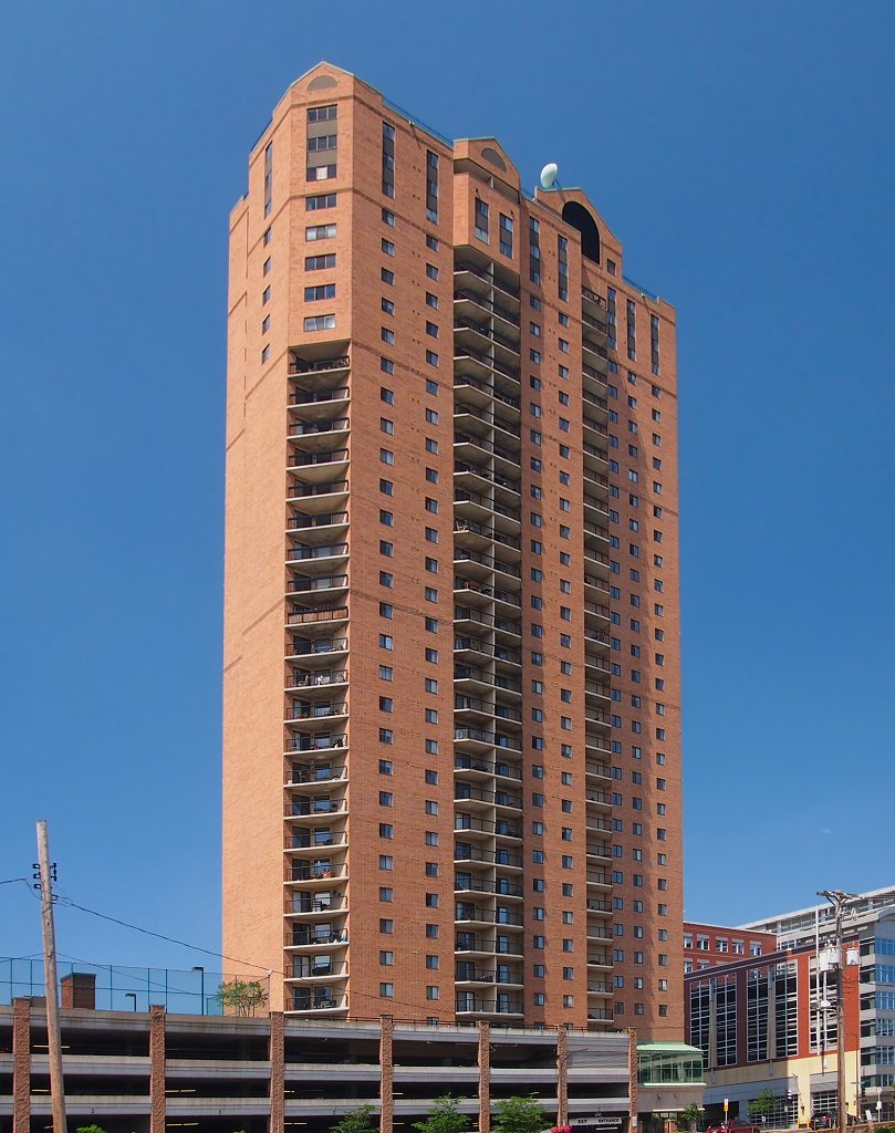 The Pointe of St. Paul, 78 10th St E, St Paul, Minnesota, USA. Viewed from the